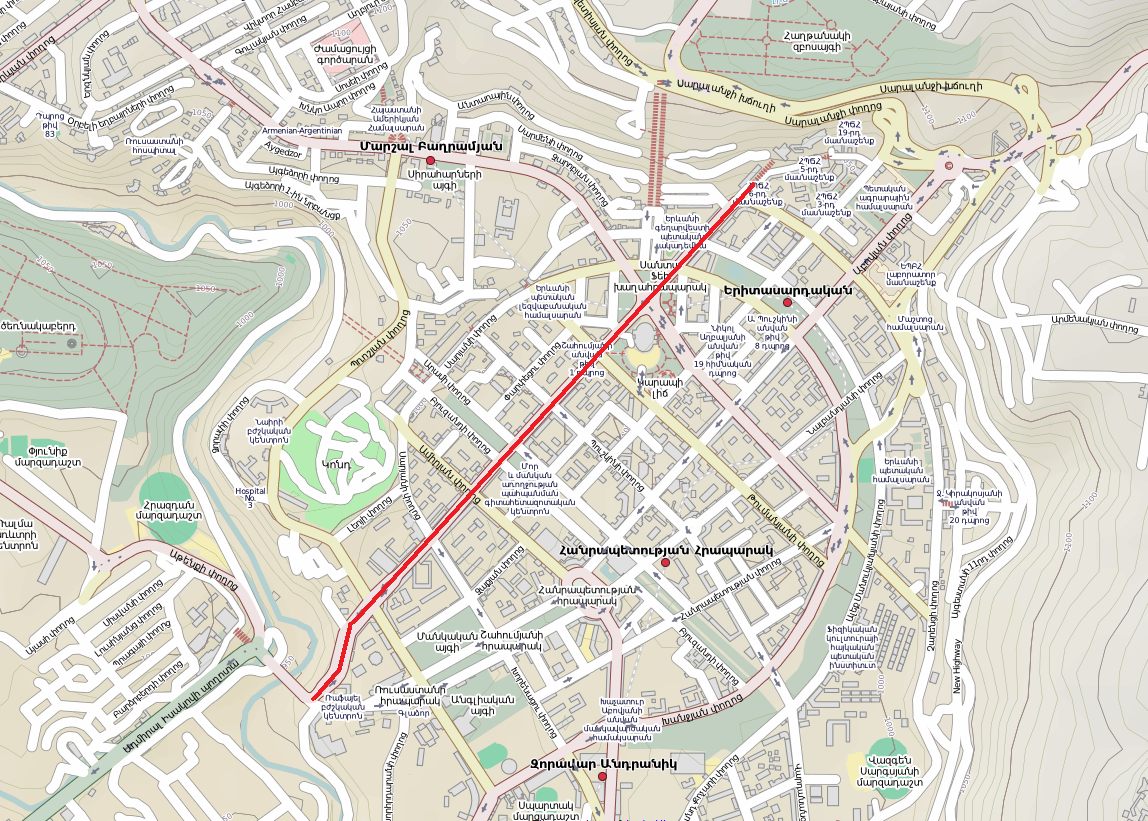 Mashtots Avenue shown on Yerevan map This map may be incomplete, and may contain errors. Don't rely solely on it for navigation.